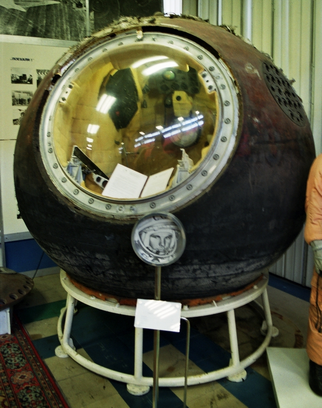 Vostok 1 descent module on display at the RKK Energiya Museum in Moscow